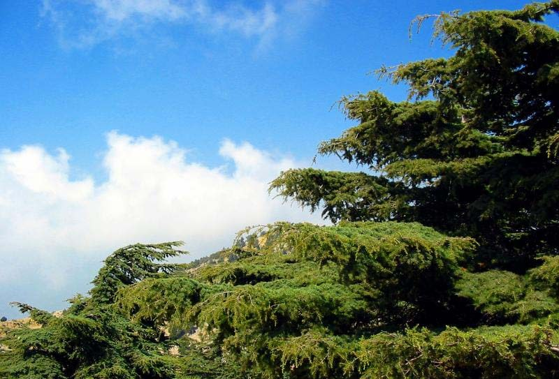 The Cedars of Lebanon